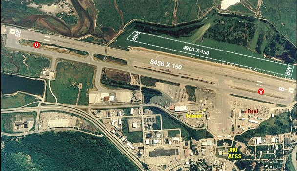 Juneau (JNU) Airport Overhead